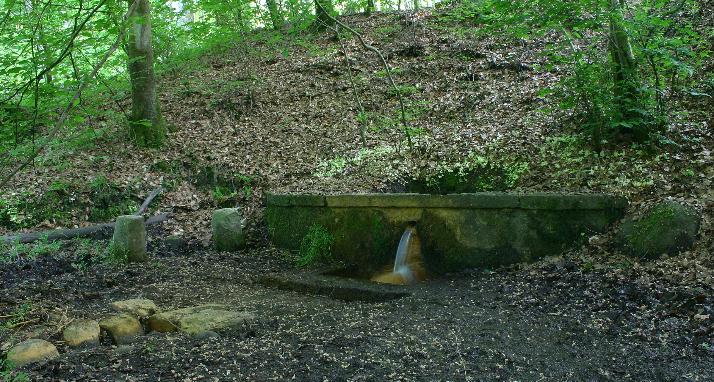 Marielundskilden.A holy well in the forest of Marielund,Kolding,Denmark.